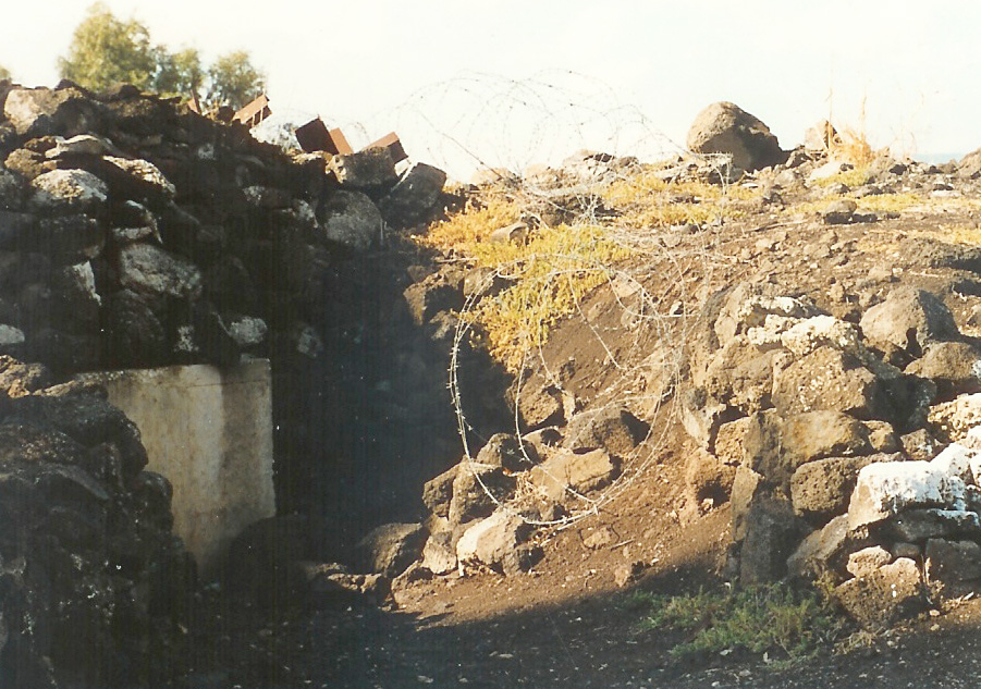 Israel, Golan Heights